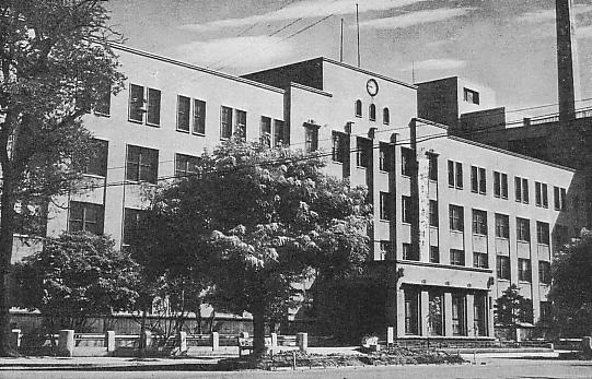 Sapporo City Hall in 1950s